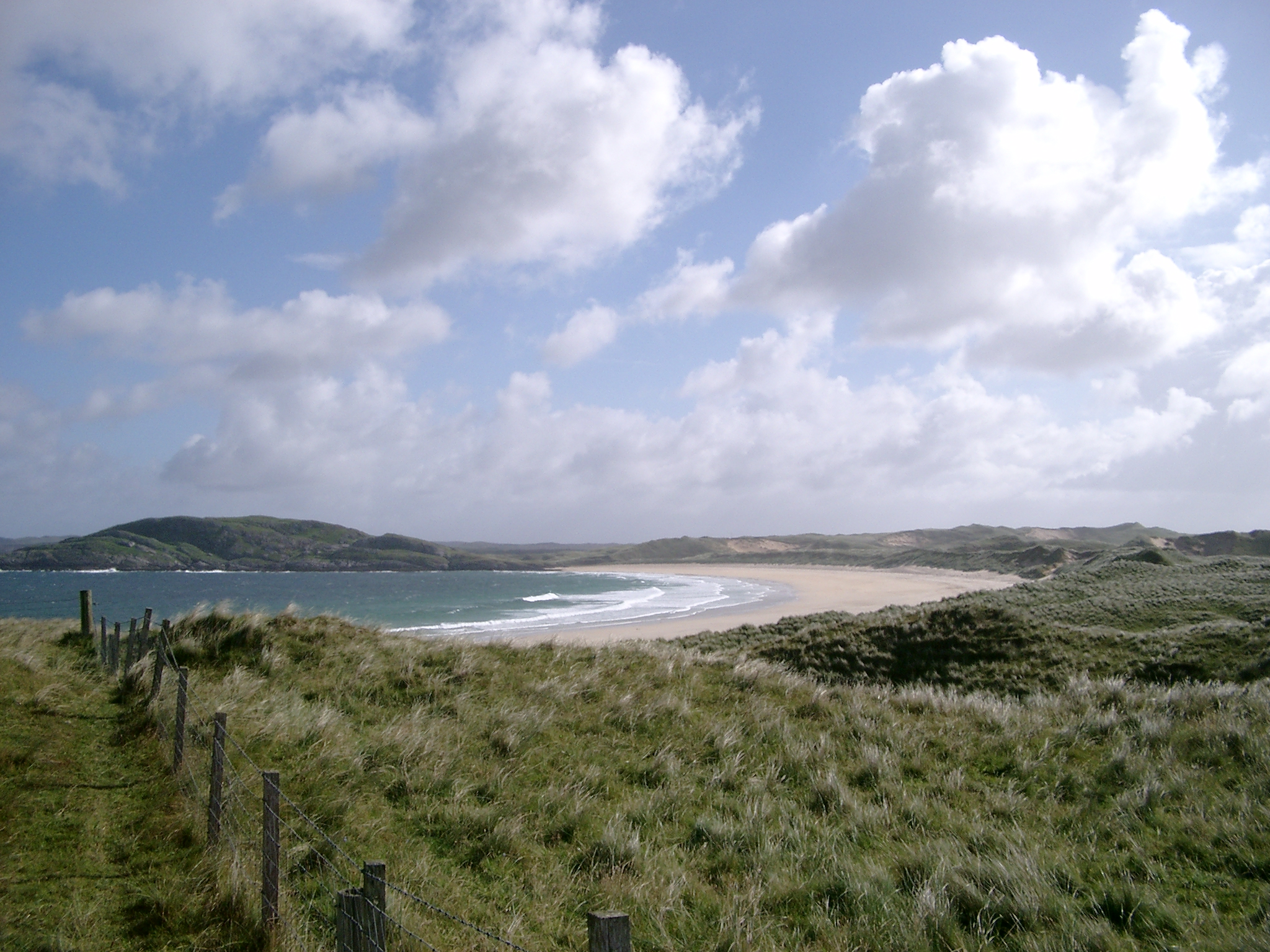 Despite the name of the image, this is not "Traigh Mhor" but rather "Traigh Feall" at Feall Bay, Isle of Coll